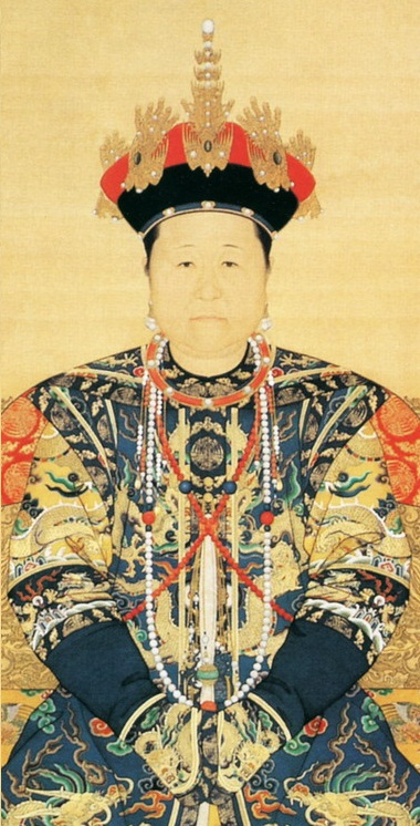 Empress Dowager Xiaozhuang, mother of Emperor Shunzhi of Qing dynasty